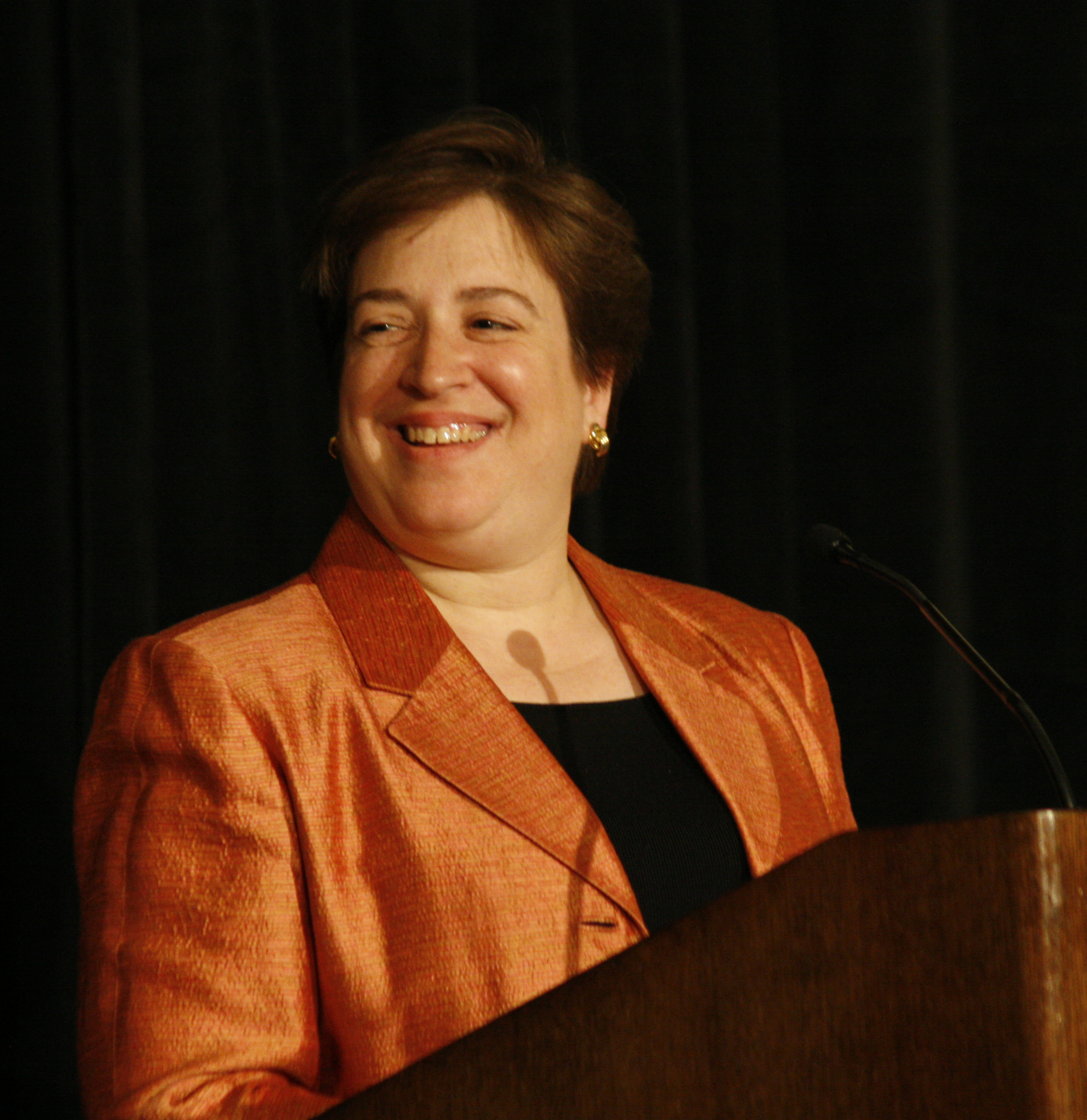 Elena Kagan as Dean of Harvard Law School